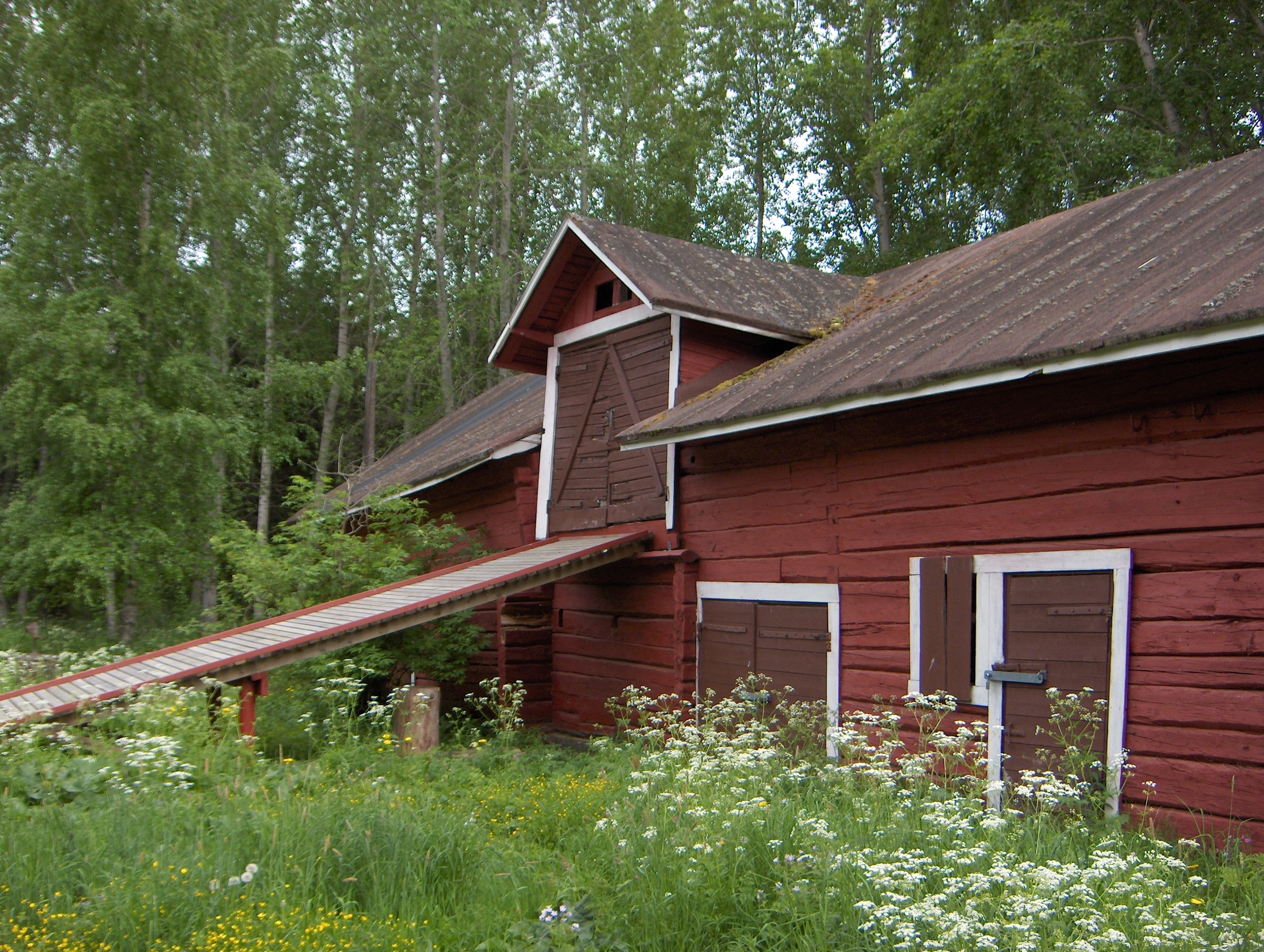 Now lost older farm building at Kuhasalo (Kukkosensaari), Joensuu. Photo was taken on June 2005. At winter 2010-2011 the roof collapsed under the weight of snow, and the remainings of the building were demolished.